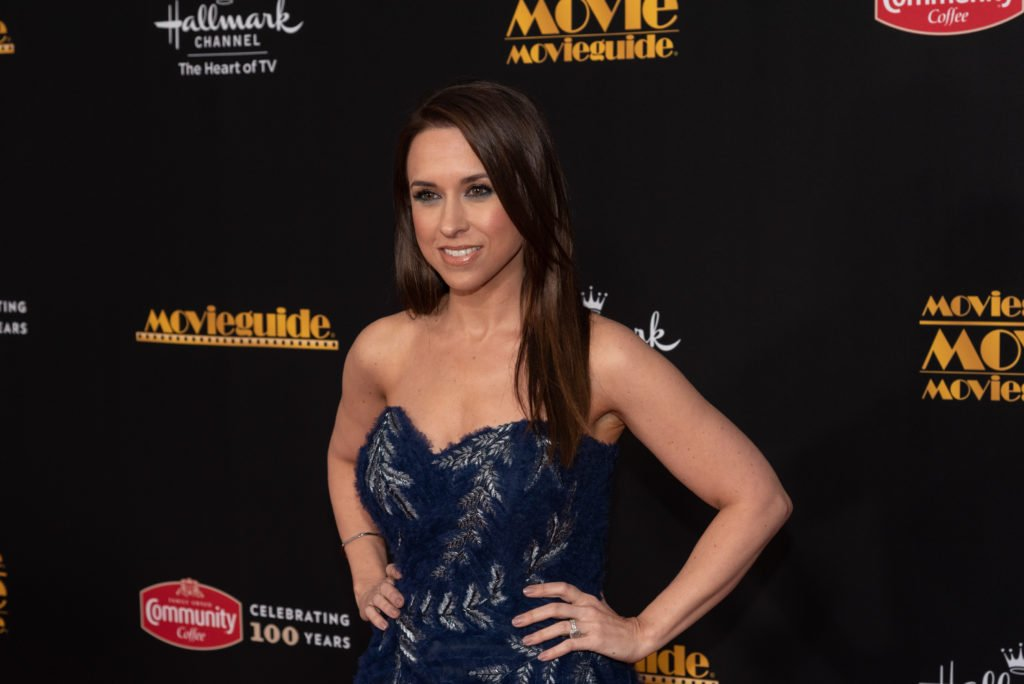 Lacey Chabert at the University City Hilton Hotel 27th Annual Movieguide® Awards